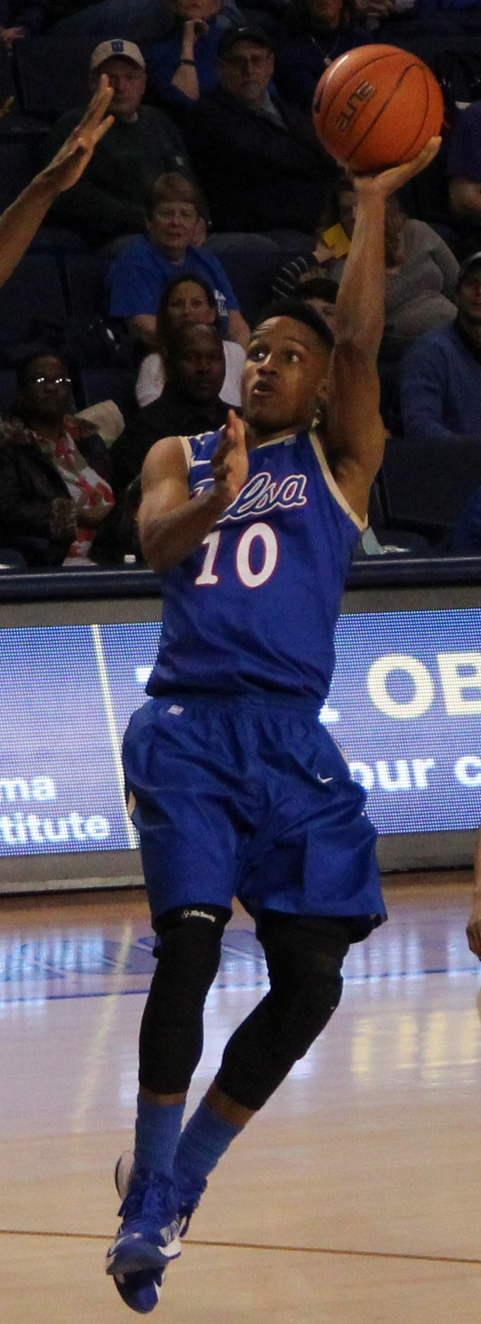 James Woodard of Tulsa shoots against Southern Miss